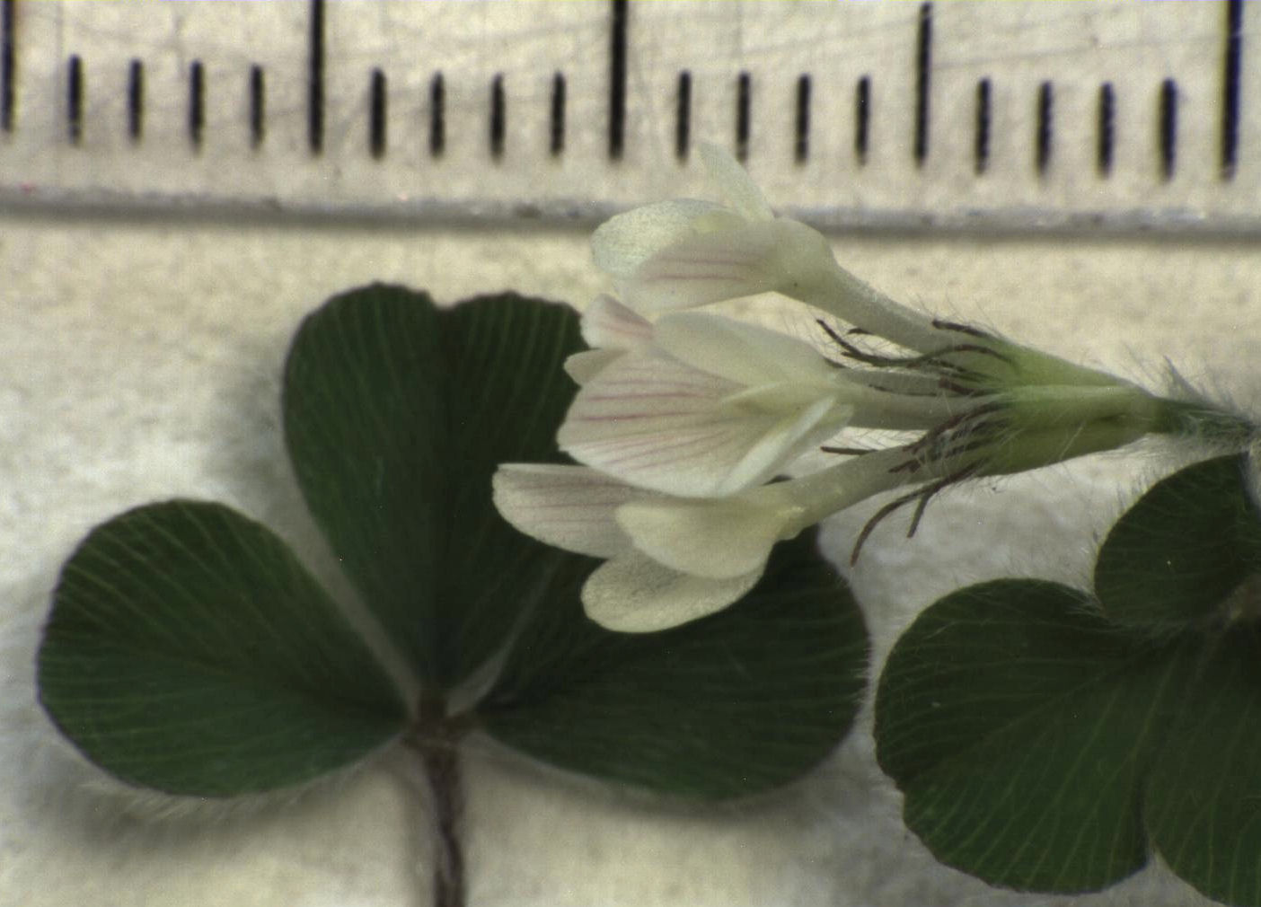 Trifolium subterraneum